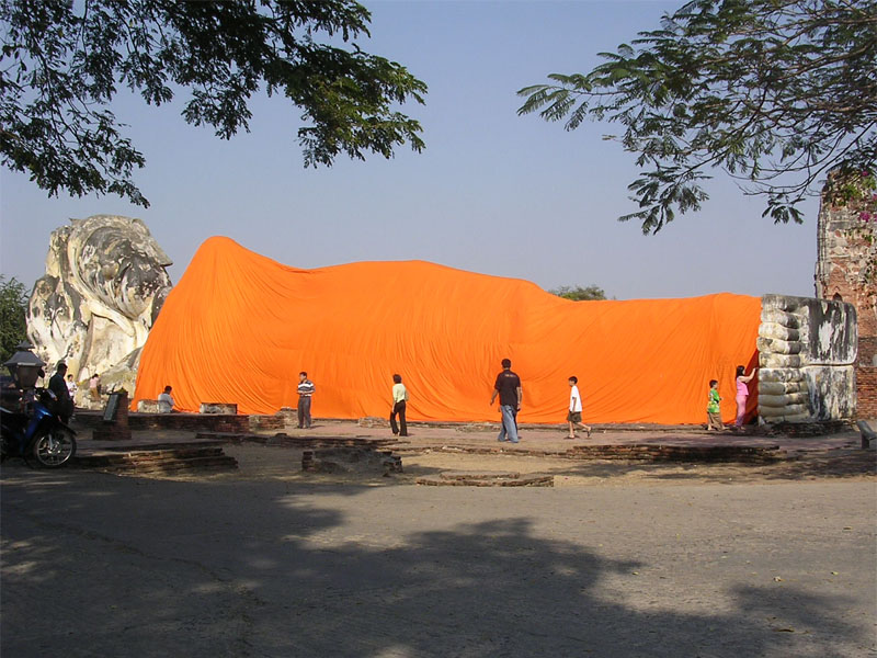 Wat Lokayasutharam